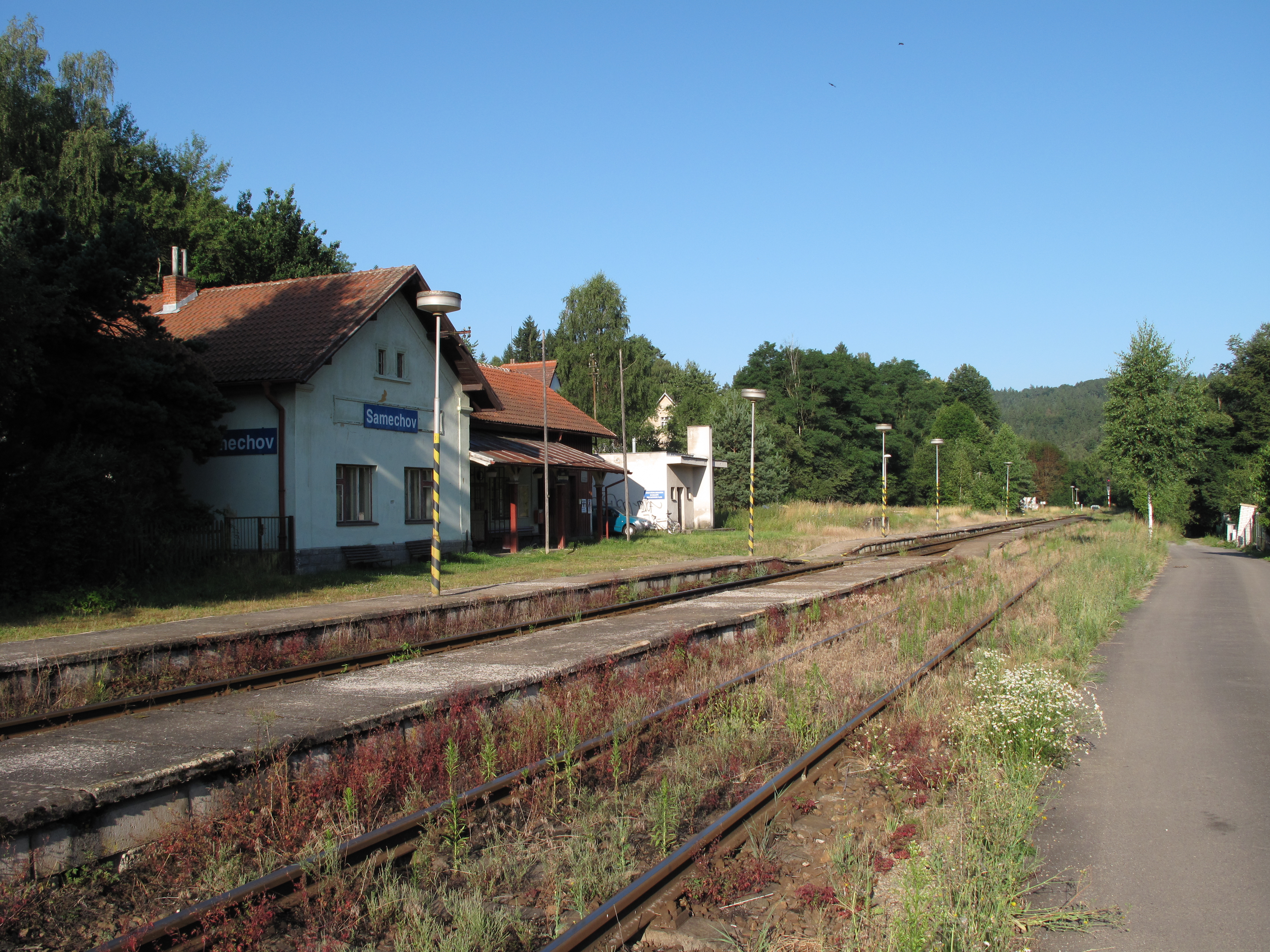 Train station Samechov of the train line 212 (Čerčany – Světlá nad Sázavou), Benešov District, Czech Republic.